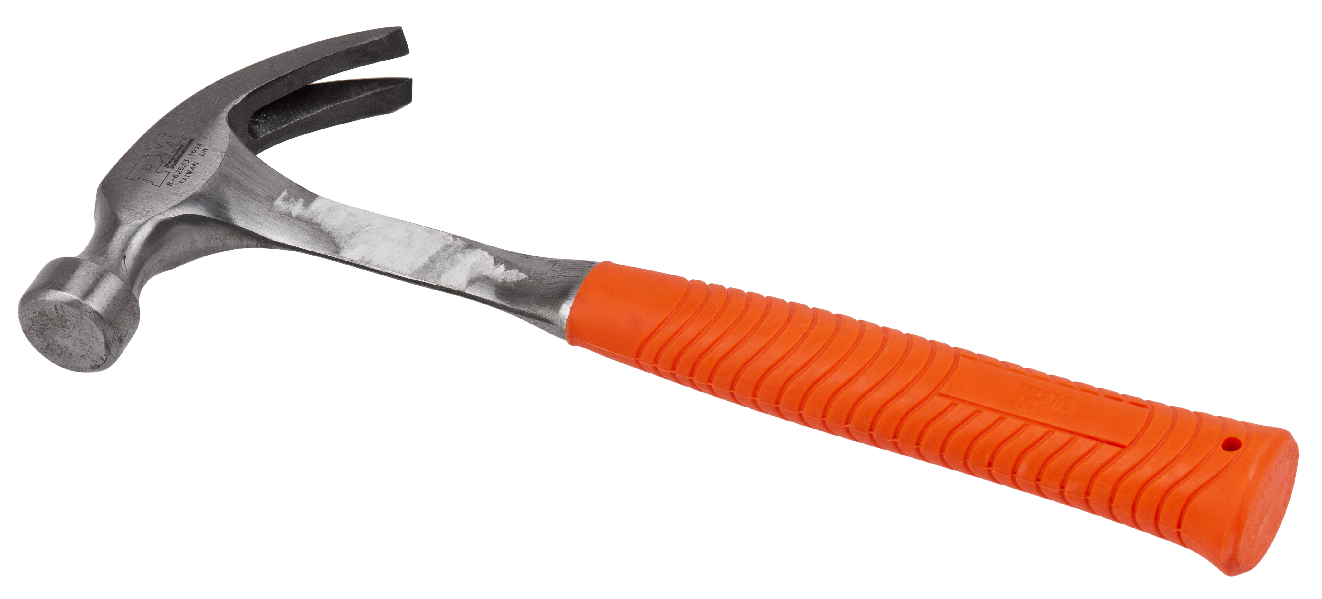 A standard household claw hammer.